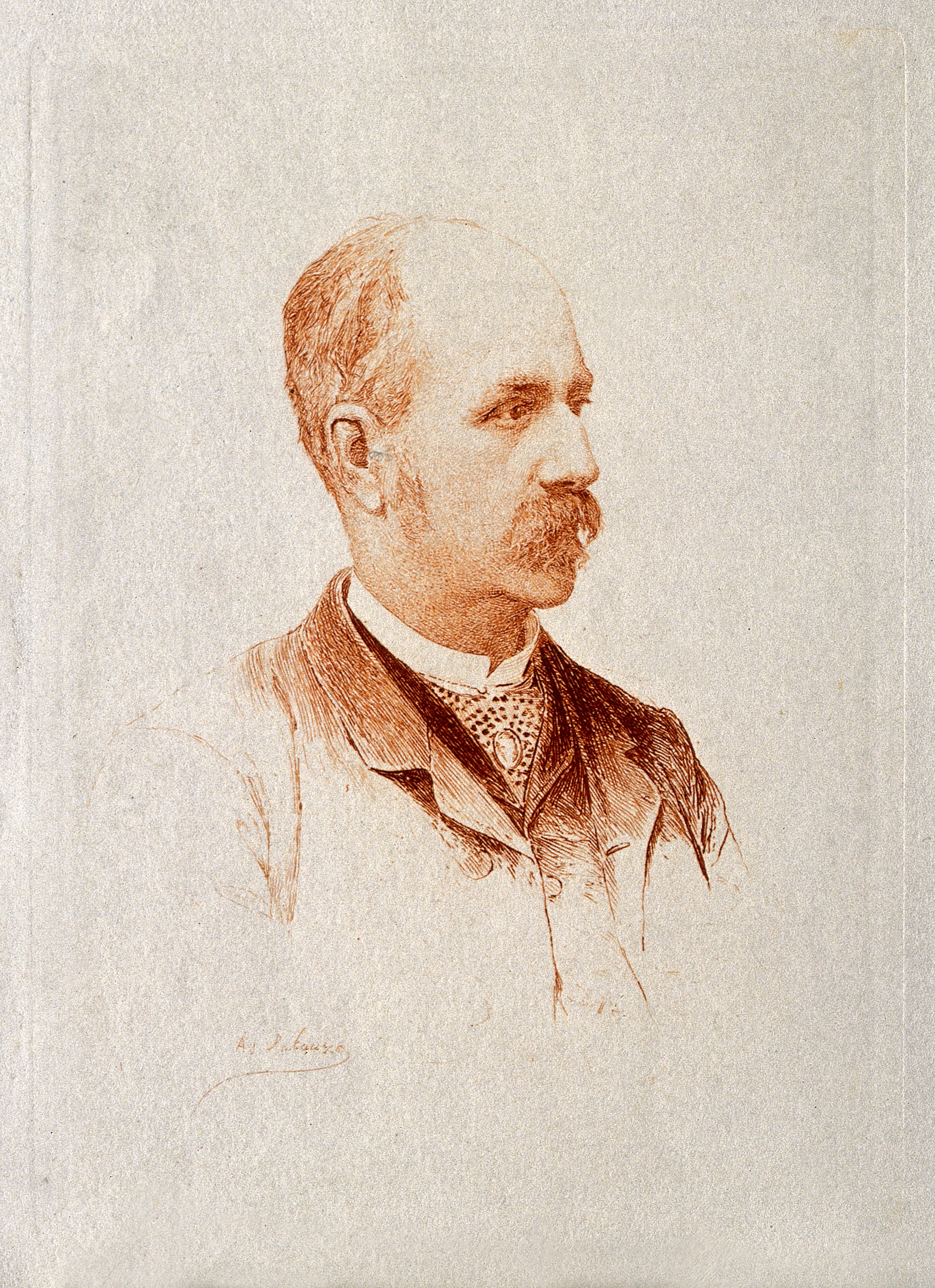 André Victor Cornil. Etching by A. J. Lalauze. Iconographic Collections Keywords: portrait prints; cornil, andrbe-victor, b. 1837; André-Victor Cornil; etchings; Adolphe Lalauze